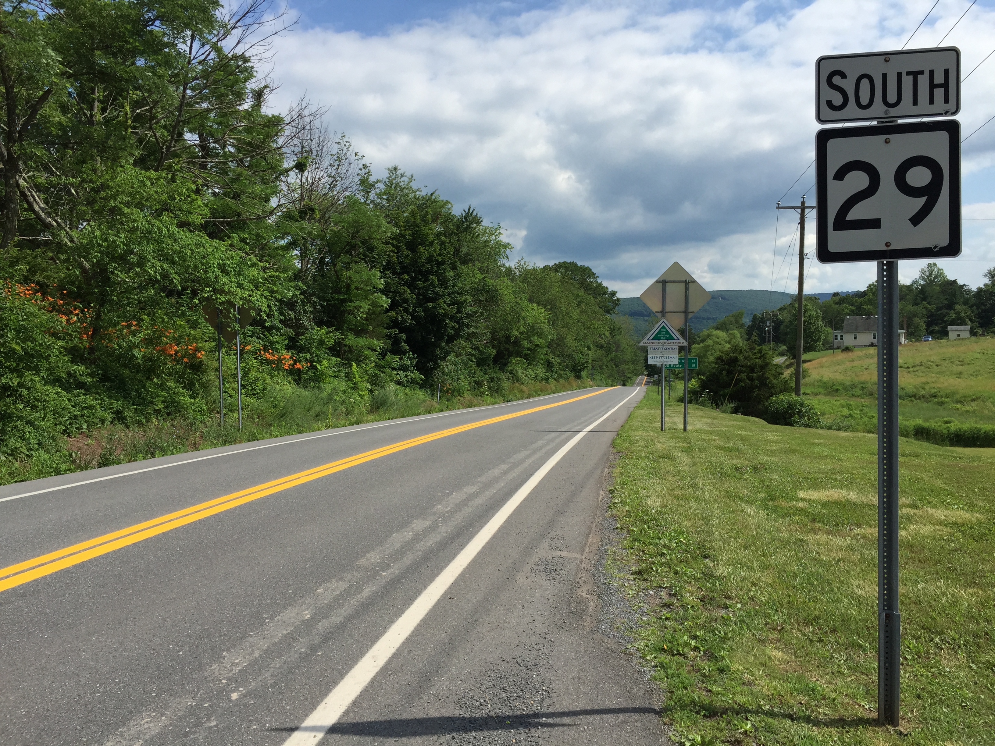 View south along West Virginia State Route 29 (Paw Paw Road) just south of the junction with West Virginia State Route 9 (Cacapon Road) in northern Hampshire County, West Virginia